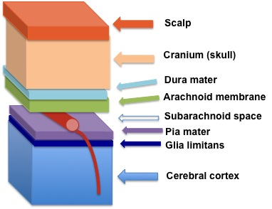 Structure of the brain layers